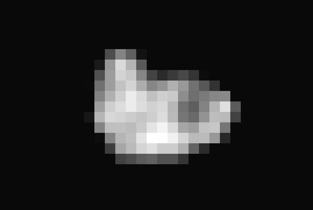 This is the first multi-pixel image of Hydra, Pluto's moon, taken during the New Horizon's closest approach.